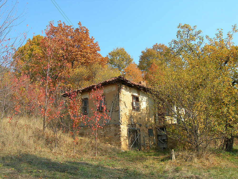 Deserted old house in Gorna Dikanya